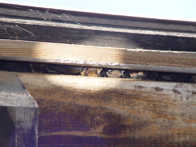 Nursery roost of Common pipistrelles (Pipistrellus pipistrellus); the split is about 2-3cm wide German description: Wochenstube von Zwergfledermäusen (Pipistrellus pipistrellus); der Spalt ist etwa 2-3cm breit.